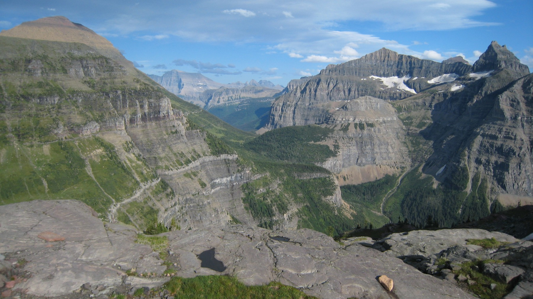 Brown Pass in Glacier National Park seen from Boulder Pass area. Chapman Peak (left) and Thunderbird Mountain right.